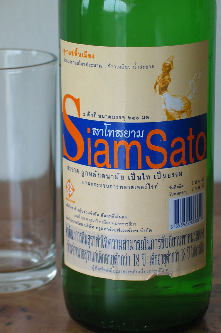 Siam Sato, traditional alcoholic beverage from Thailand.